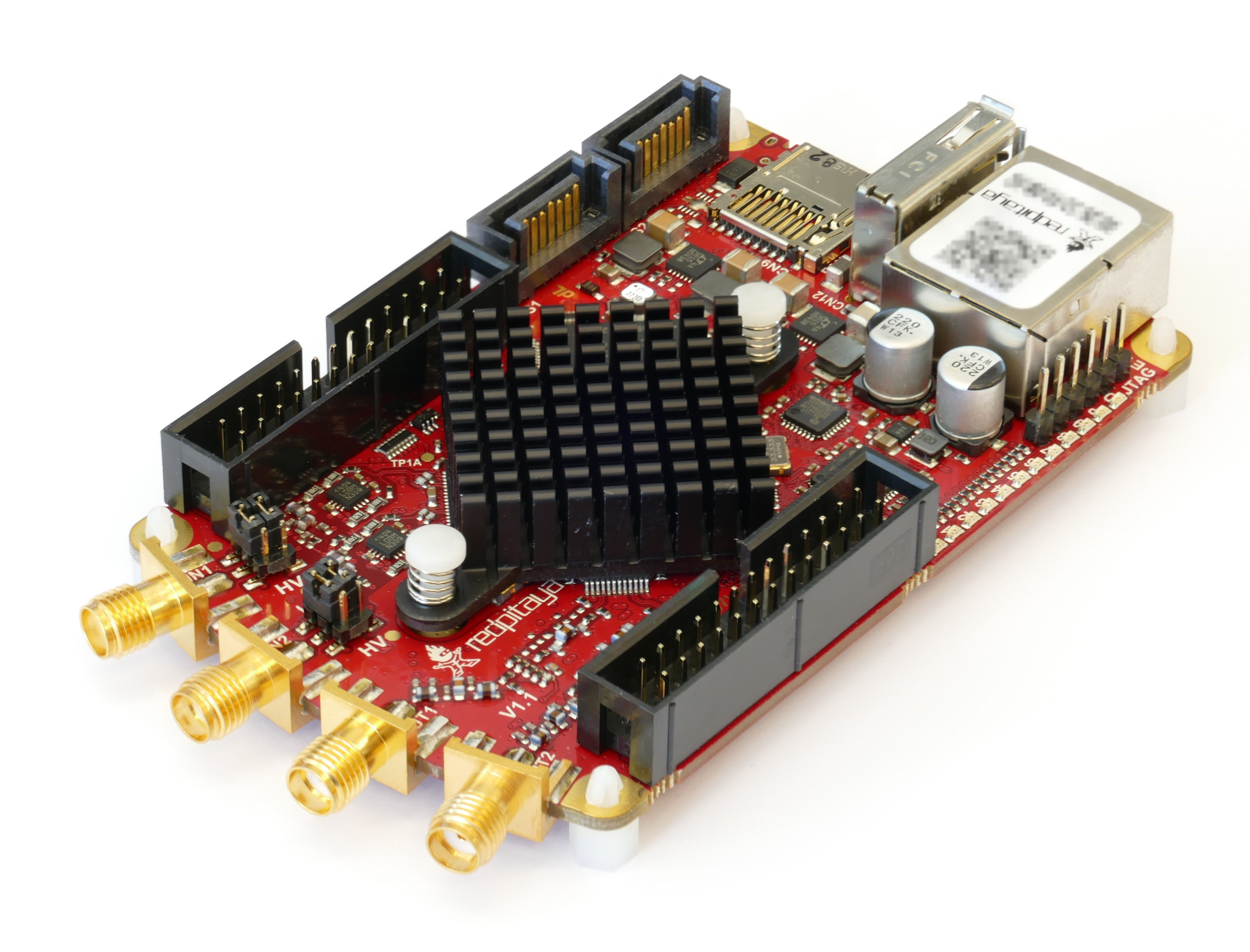 RedPitaya STEMLab FPGA PCB assembly v1.1, front view